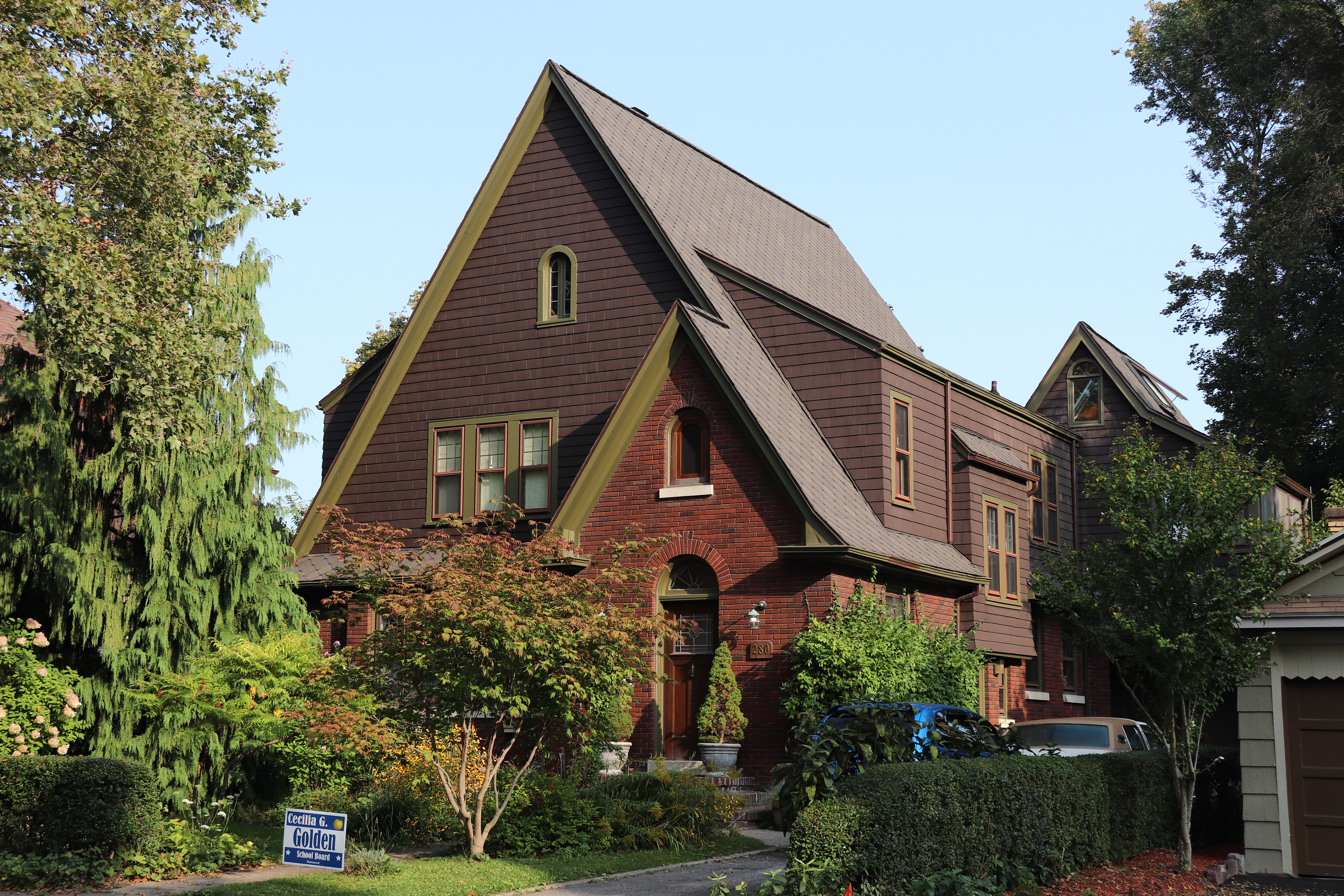 House in the Sibley–Elmdorf Historic District